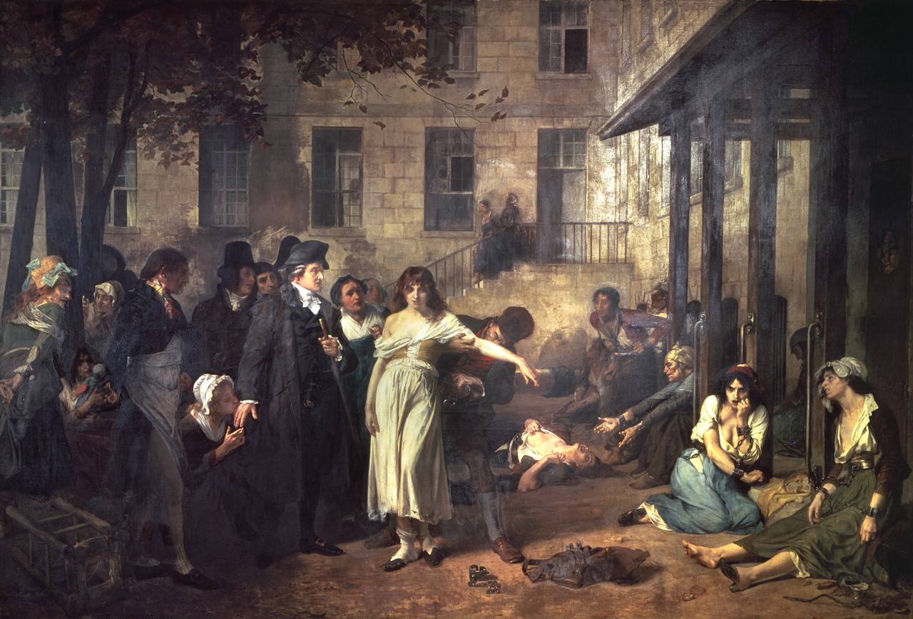 French psychiatrist Philippe Pinel (1745-1826) releasing lunatics from their chains at the Salpêtrière asylum in Paris in 1795